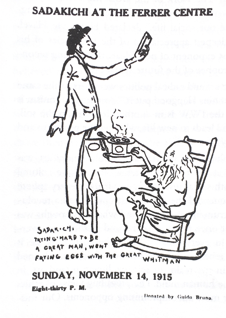 Scan of print by Lillian Bonham Hartmann donated by Guida Bruno courtesy of Jaques Rudome available in Paul Avrich's book The Modern School Movement